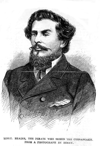 John Clibbon Braine